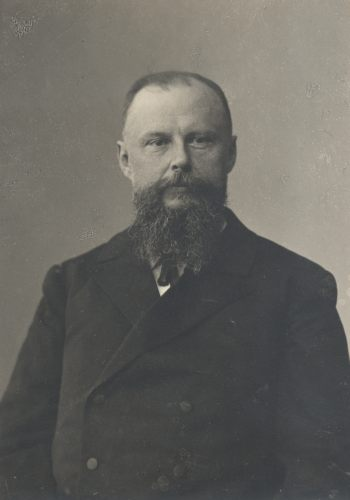 Portrait of Grigori Levitsky (1852–1917), Russian astronomer